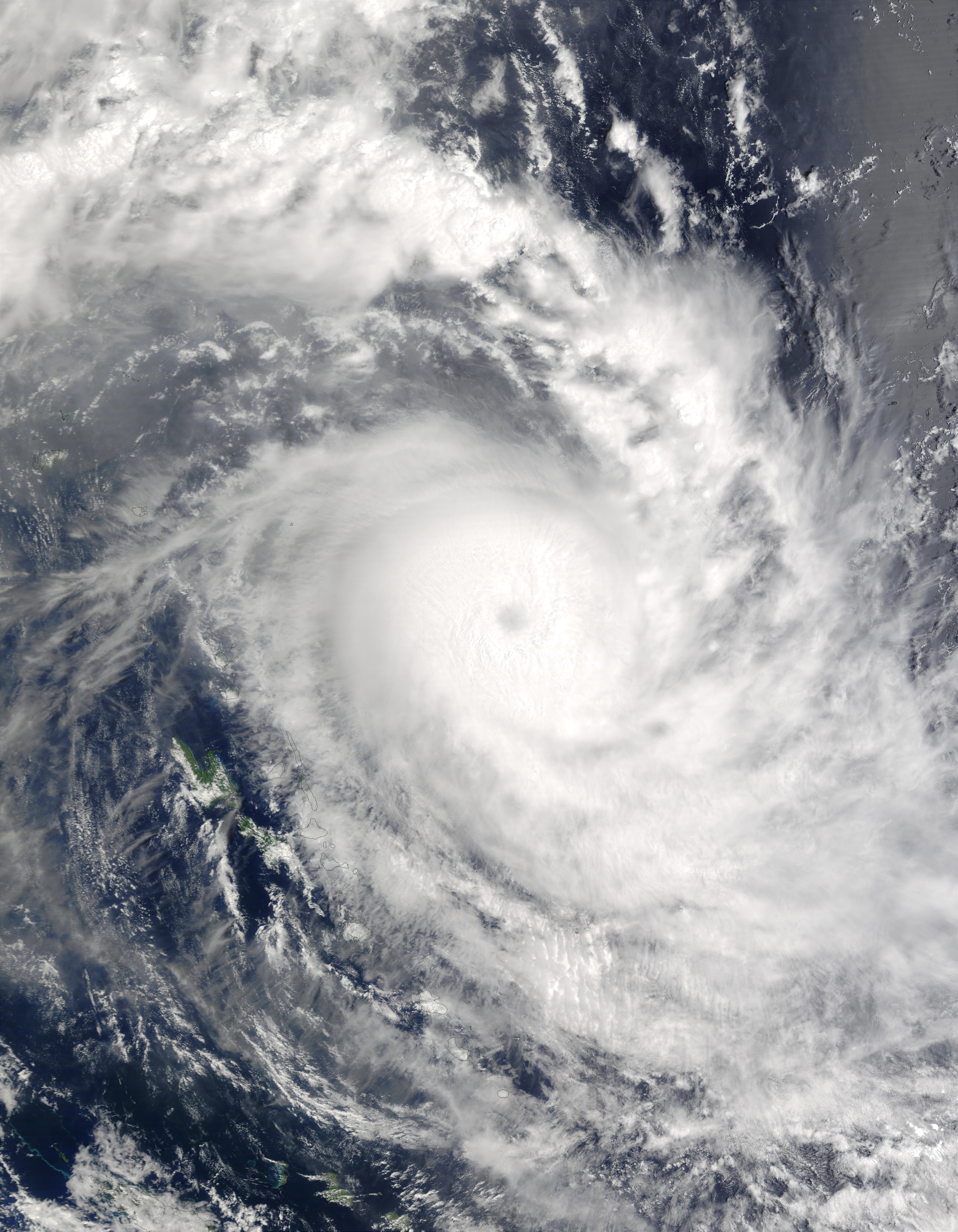 In this Moderate Resolution Imaging Spectroradiometer (MODIS) image, Tropical Cyclone Zoe was located near 13.9S and 171.0E. Zoe was moving southeast around 7 knots and continues to weaken. Maximum 10-minute average winds were estimated at 95 knots.